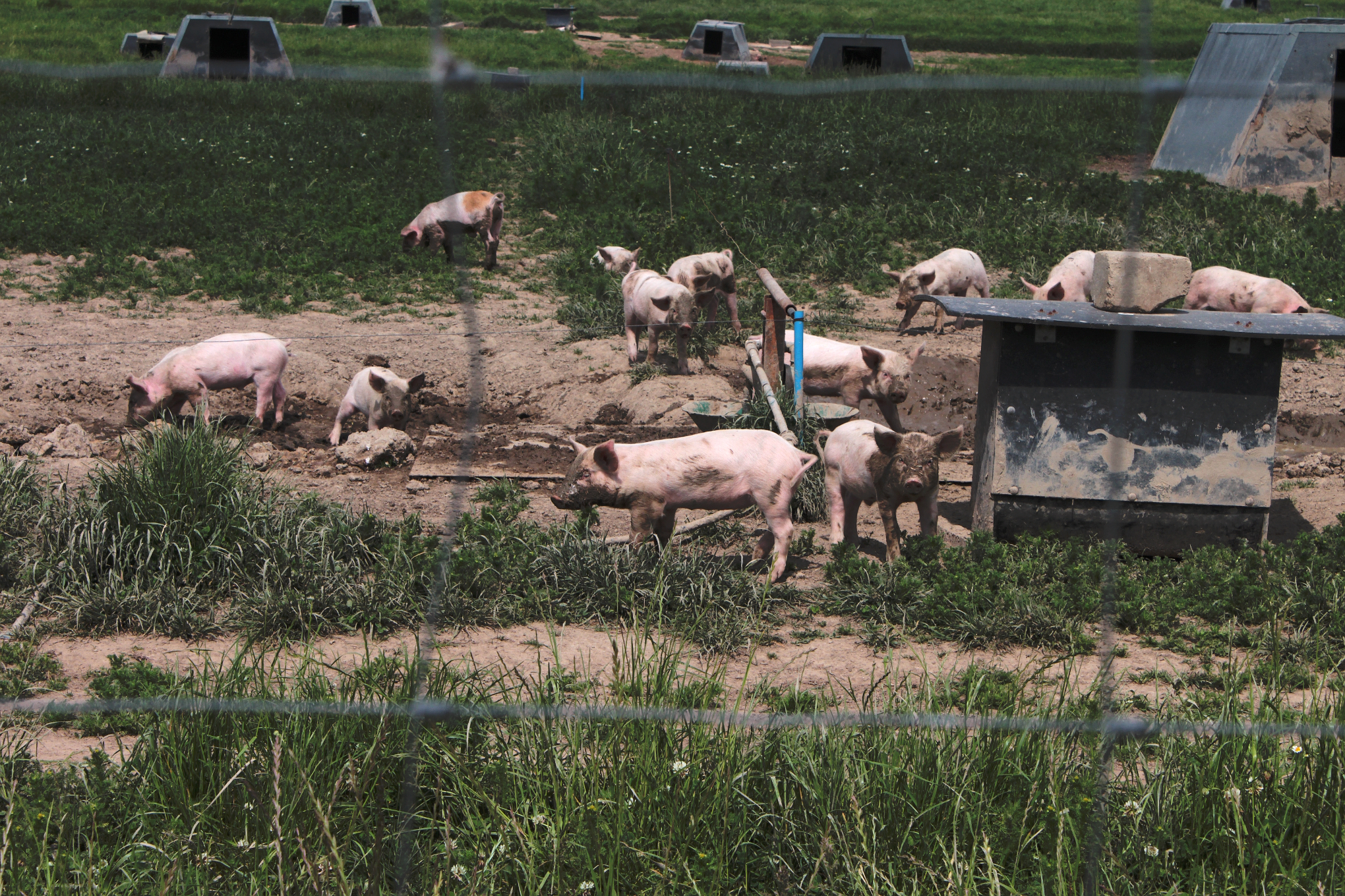 Organic pig production i Denmark